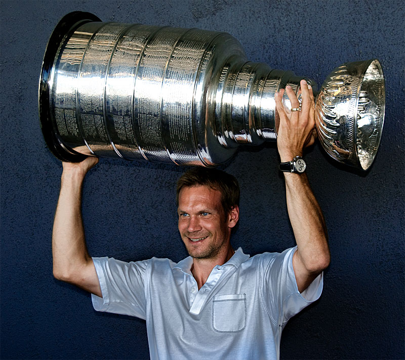 Nicklas Lidström with the Stanley Cup trophy in Västerås, Sweden.